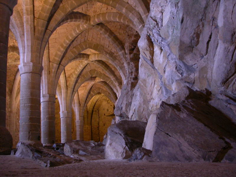 Chillon castle's basement, where the rocks are apparent. It has been used as a prison and as storage area over the centuries.